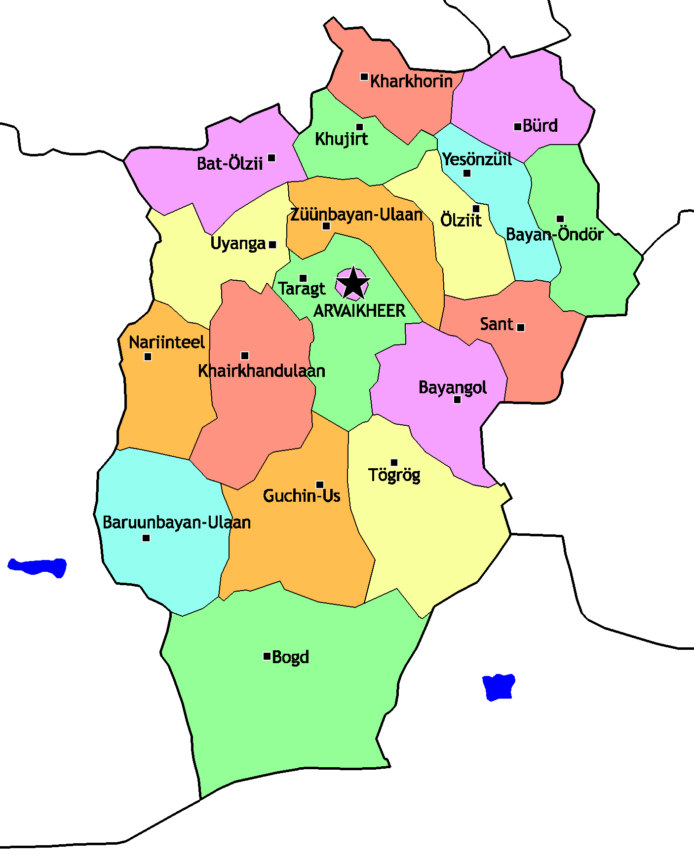 Map of the Ovorkhangai aimag with the sums